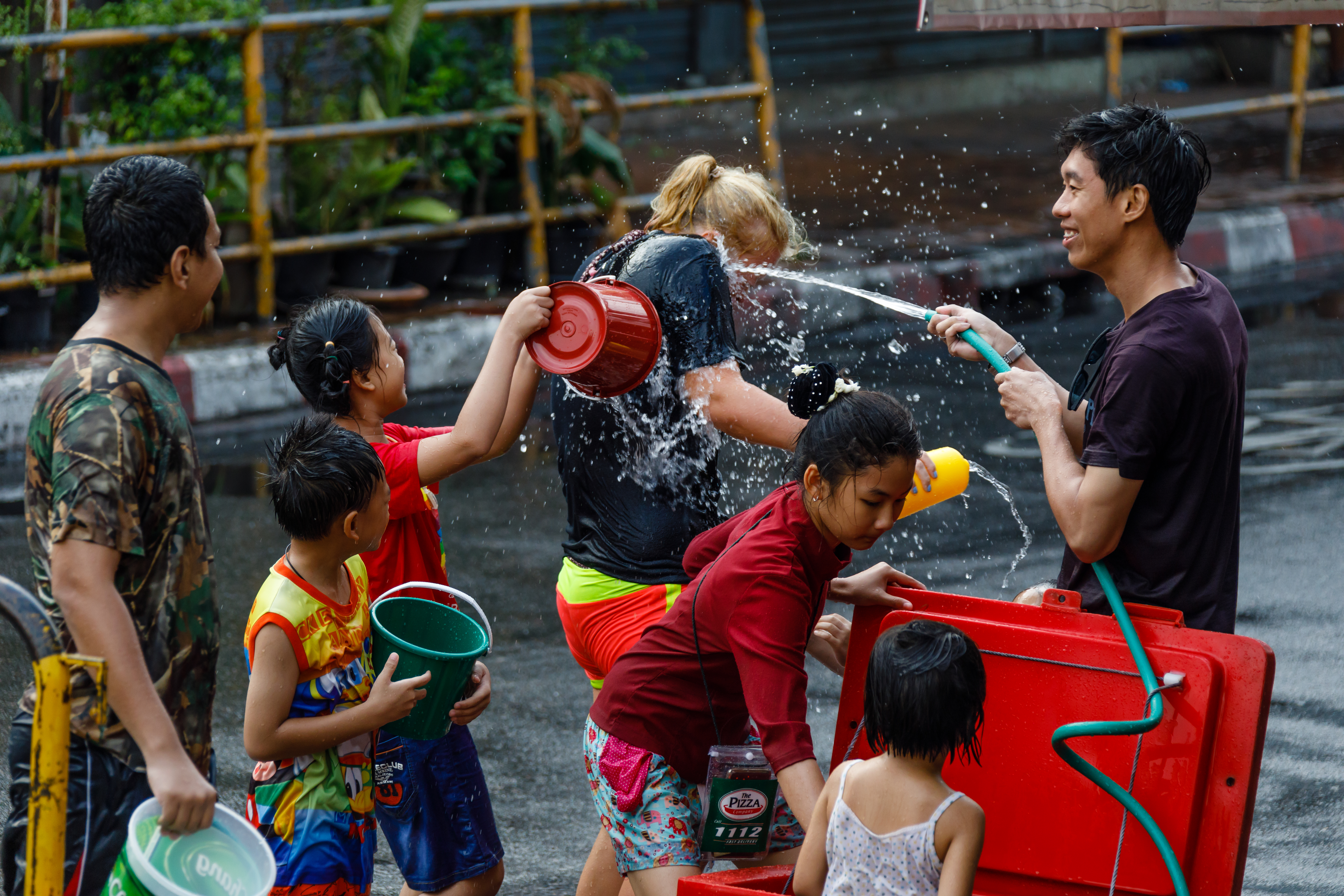 Chiang Mai, Thailand: Songkran Festival 2017.